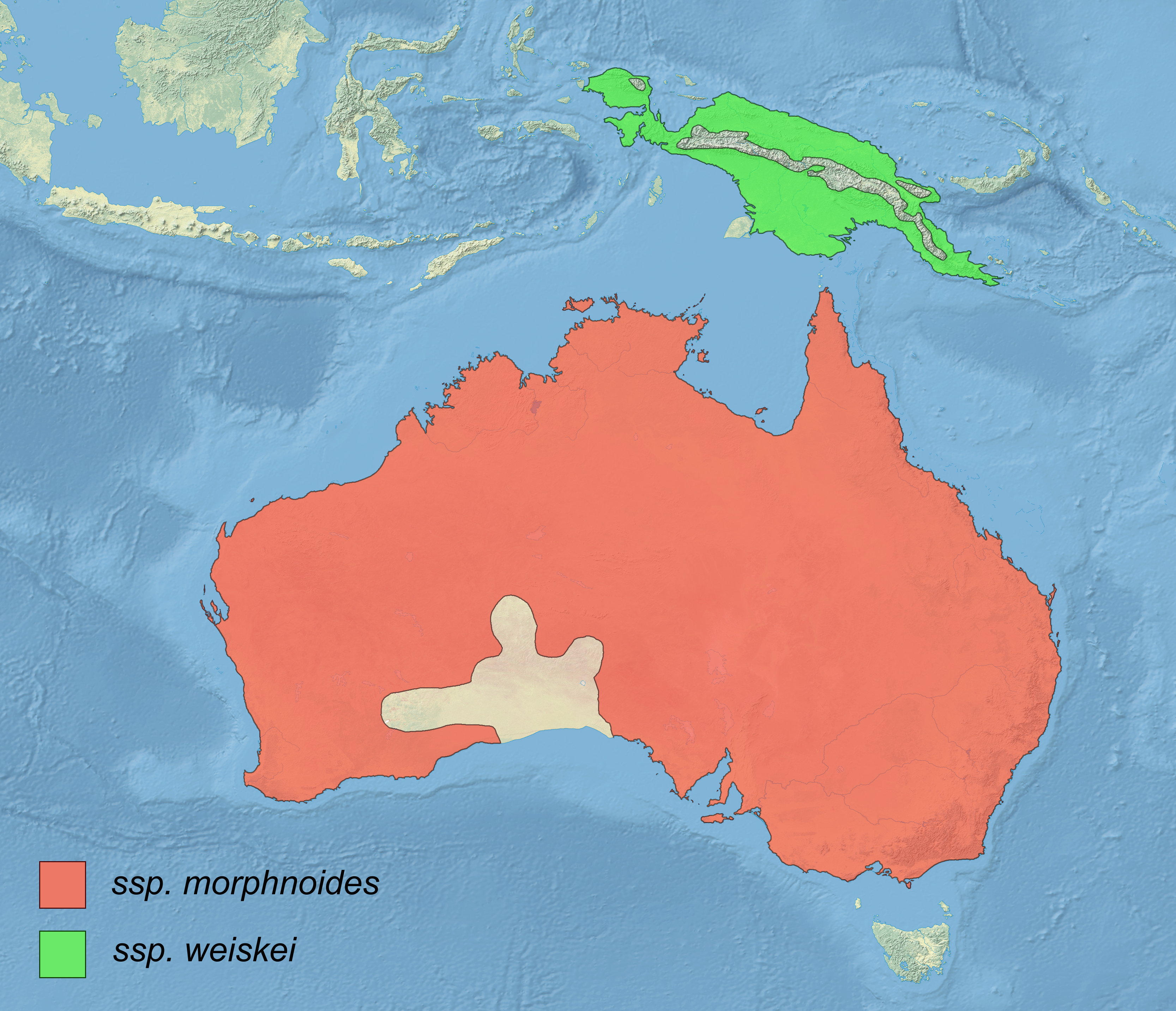 Distribution map of Hieraaetus morphoides ssp. morphnoides (red) and ssp. weiskei (green). Distribution data from BirdLife International 2009. Hieraaetus morphnoides. In: IUCN 2011. IUCN Red List of Threatened Species. Version 2011.2. . Downloaded on 11 February 2012. BirdLife International 2009. Hieraaetus weiskei. In: IUCN 2011. IUCN Red List of Threatened Species. Version 2011.2. . Downloaded on 11 February 2012. Map from Natural Earth